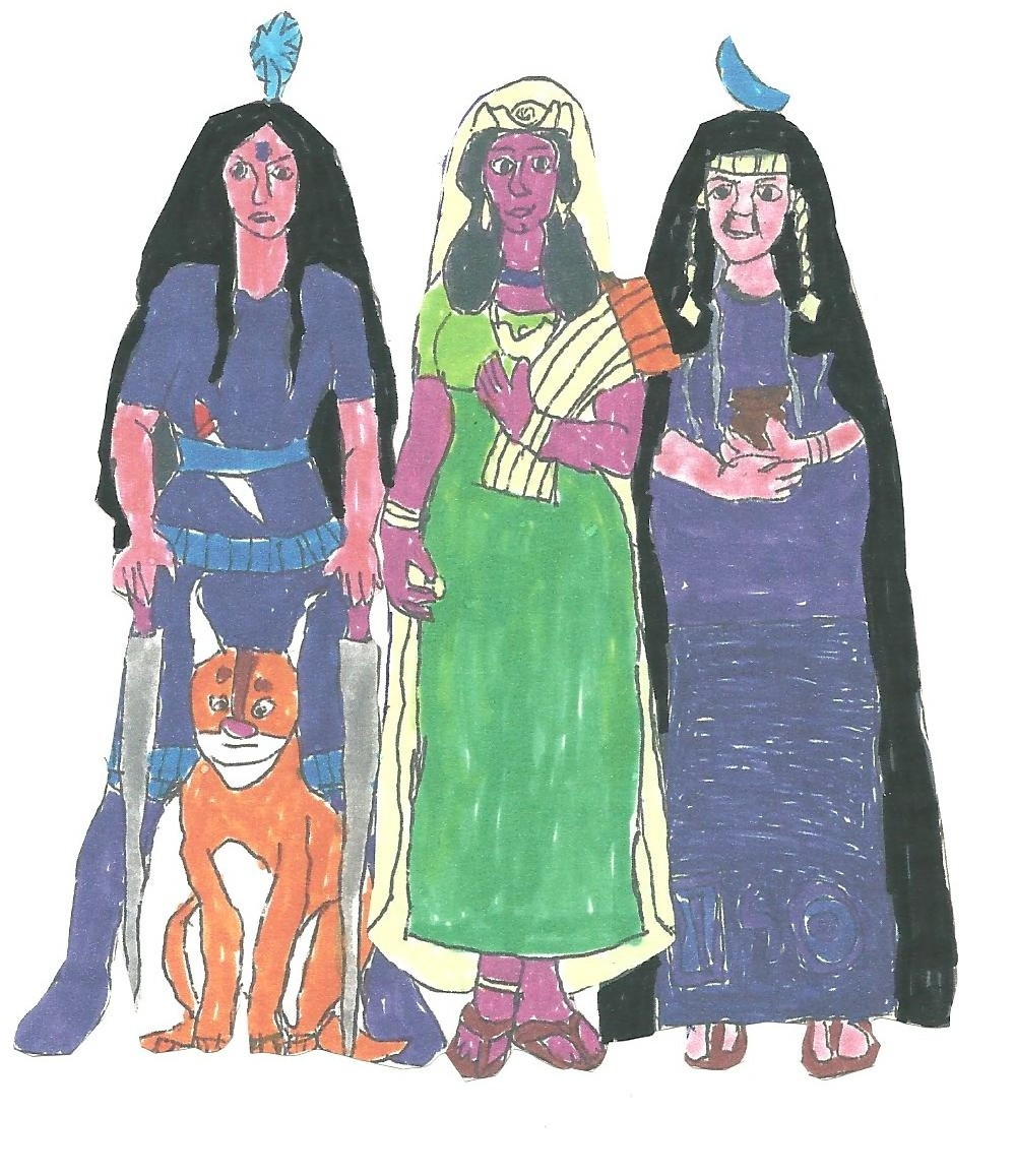 the Pre-Islamic arabian Goddesses Uzza, Al-Lat and Manat